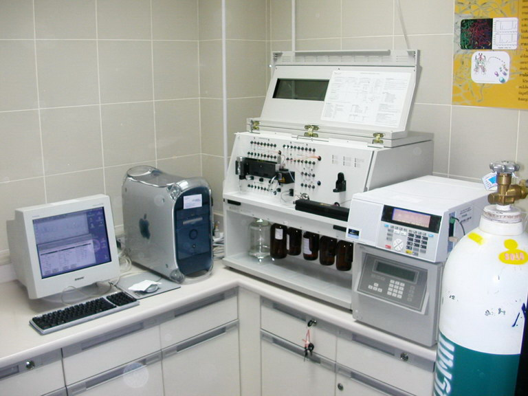 Rice Research Center tour